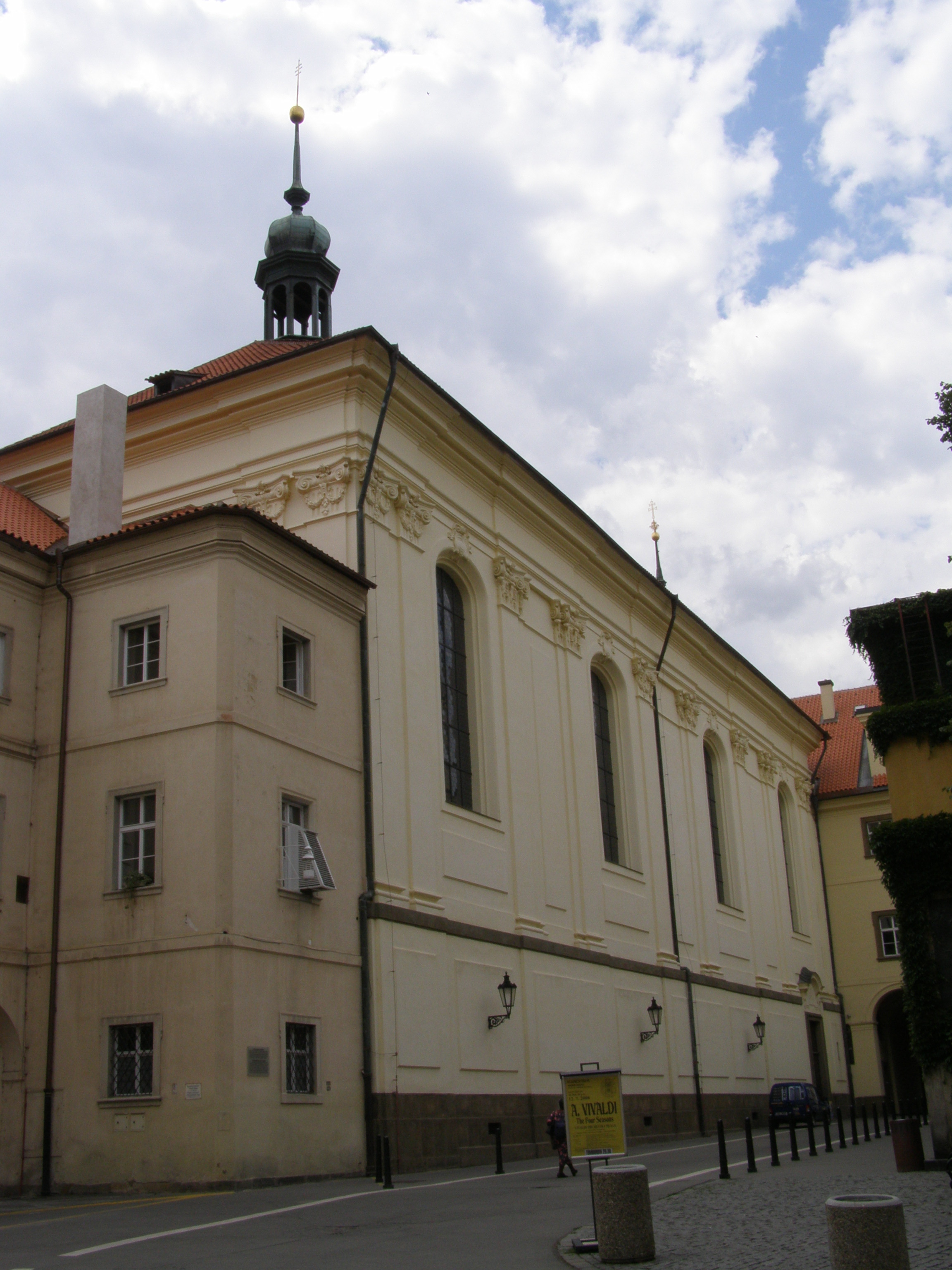 Prague, Clementinum, Saint Clemens Church.